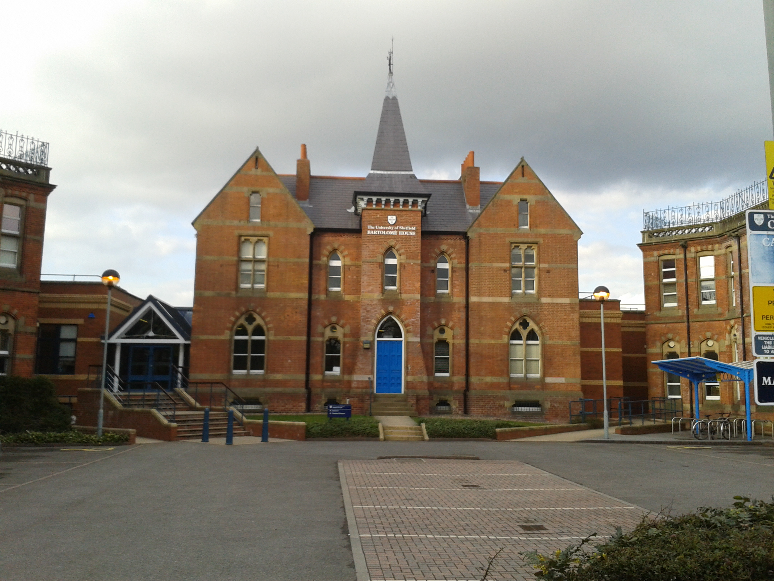 Central Block at Bartolome House, on Winter Street in the Netherthorpe area of Sheffield. Part of the University of Sheffield